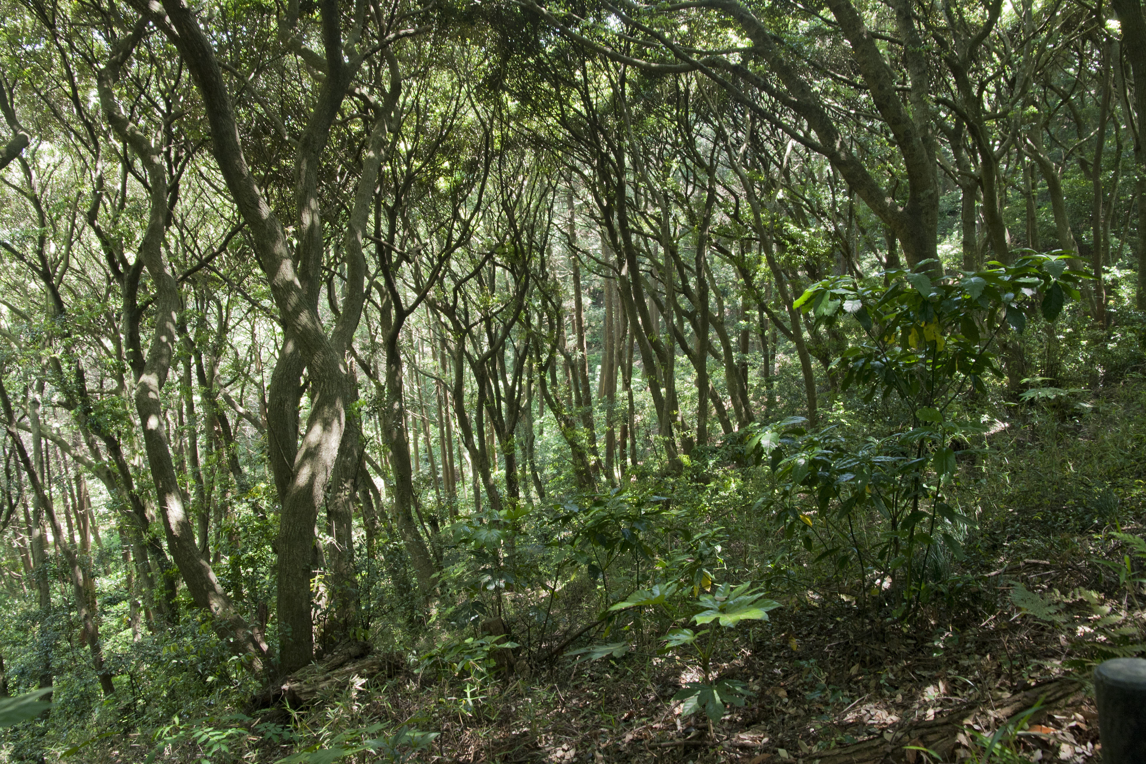 The forest in Shimousa plateau, Tonosho Town, Chiba Prefecture, Honshu, Japan